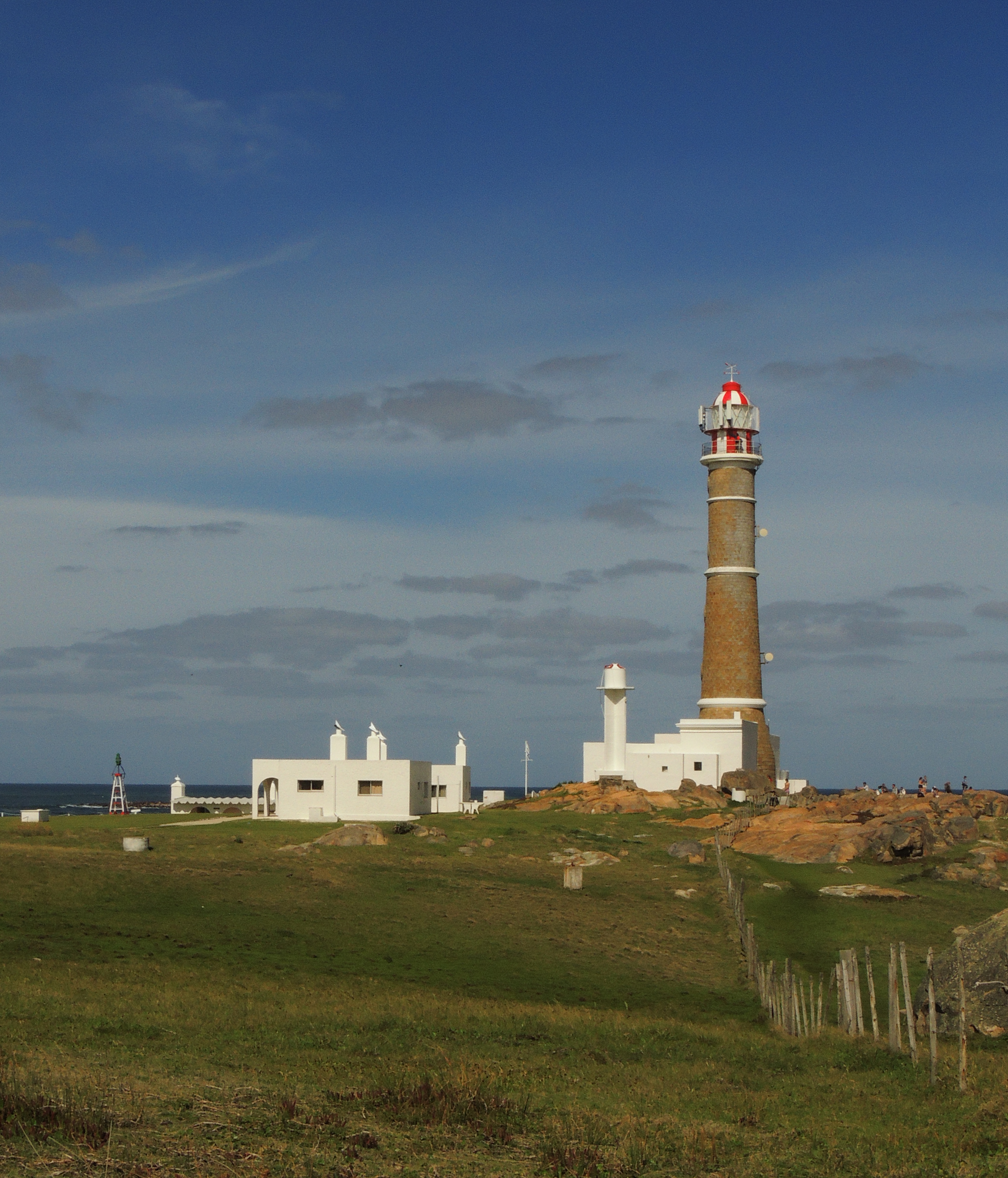 Lighthouse of Cabo Polonio in Uruguay.